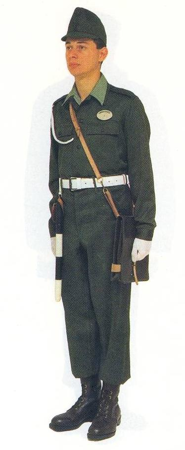 hungarian military police summer fatigue (enlisted, 1965-2005 era)